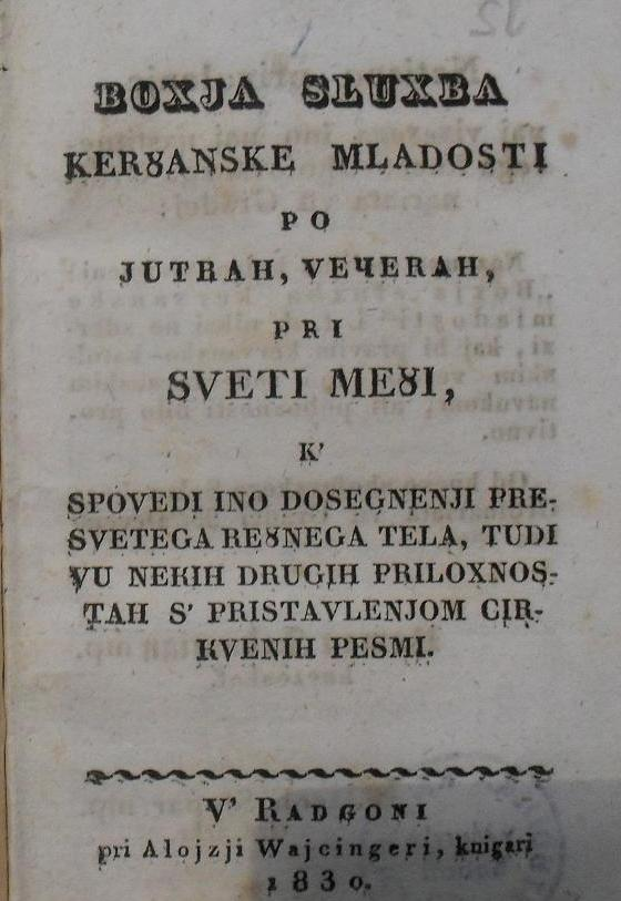 Peter Dajnko: Boxja sluxba ker8anske mladosti (The ministry of the christian youth for the God), from 1830 in Styrian Slovene language and Dajnko-Alphabet (dajnčica)